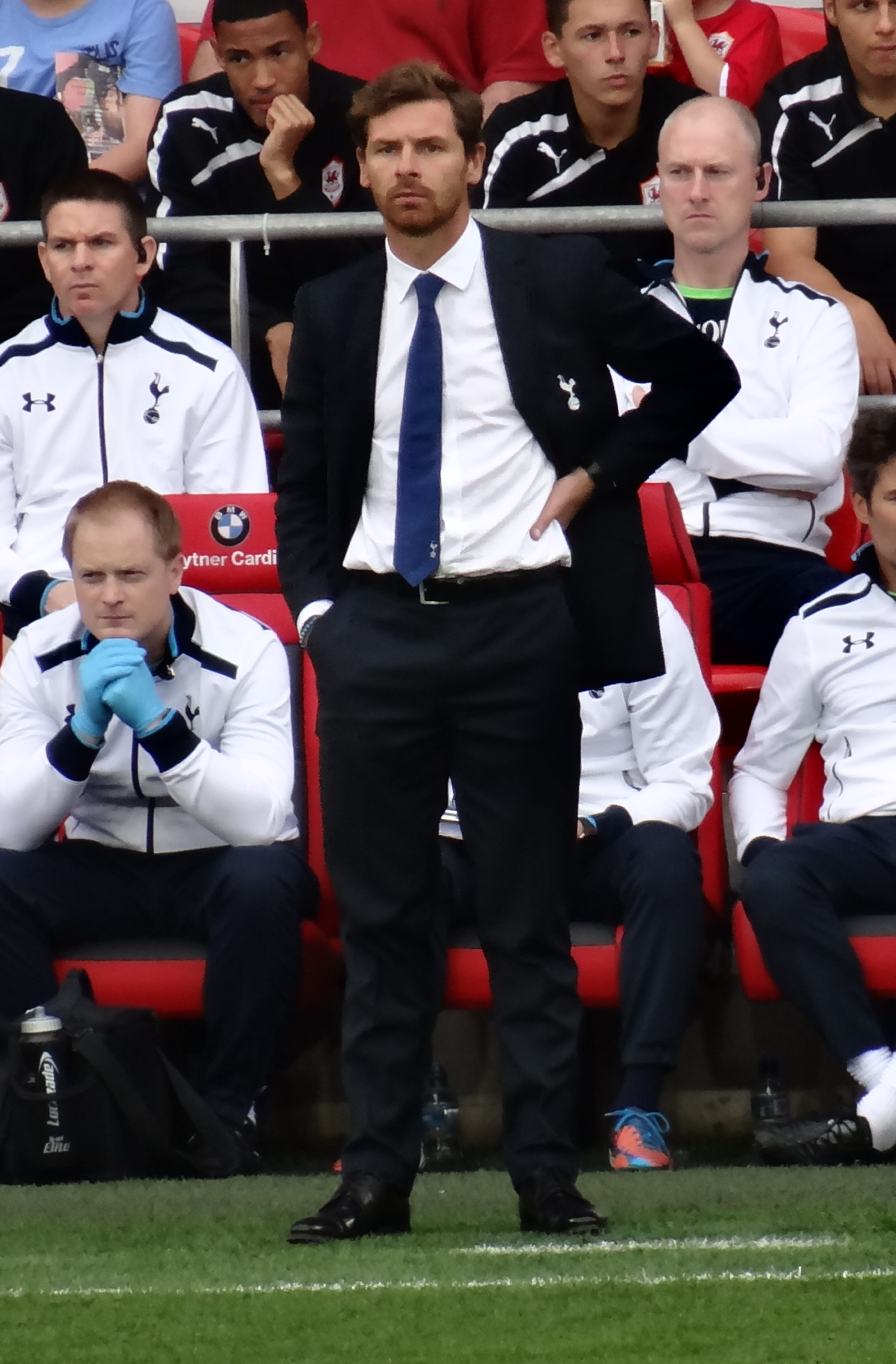 André Villas-Boas as a coach of Tottenham Hotspur